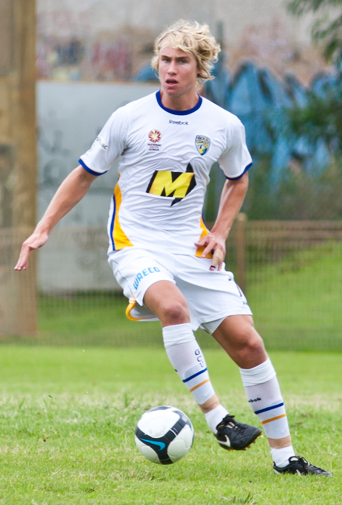 Zachary Anderson playing for the Gold Coast United youth team.